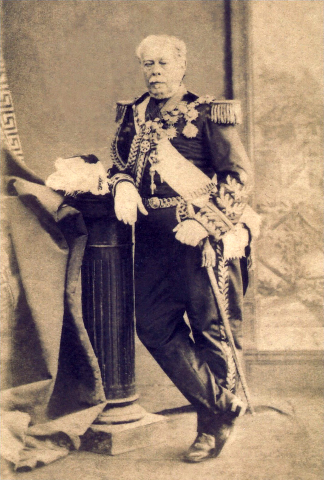 Duke of Caxias, 1877.